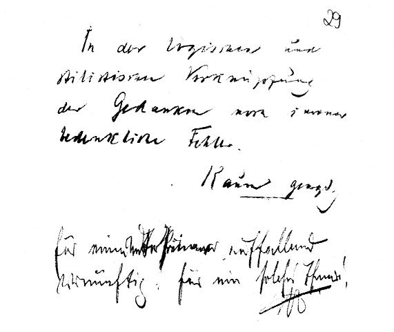 Evaluating comments by the teacher Otto Schroeder and by Emperor William II on a composition test at school (1901) with the topic "The Leg Positions of the Monuments in the Siegesallee".